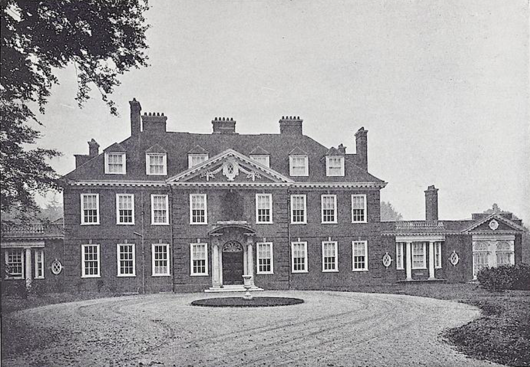 Hazelwood, King's Langley by George Hubbard and Albert Walter Moore. From The Studio Yearbook of Decorative Art 1911